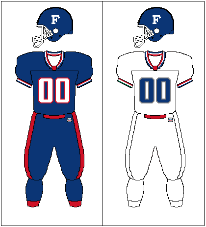 Uniform of the France national american football team